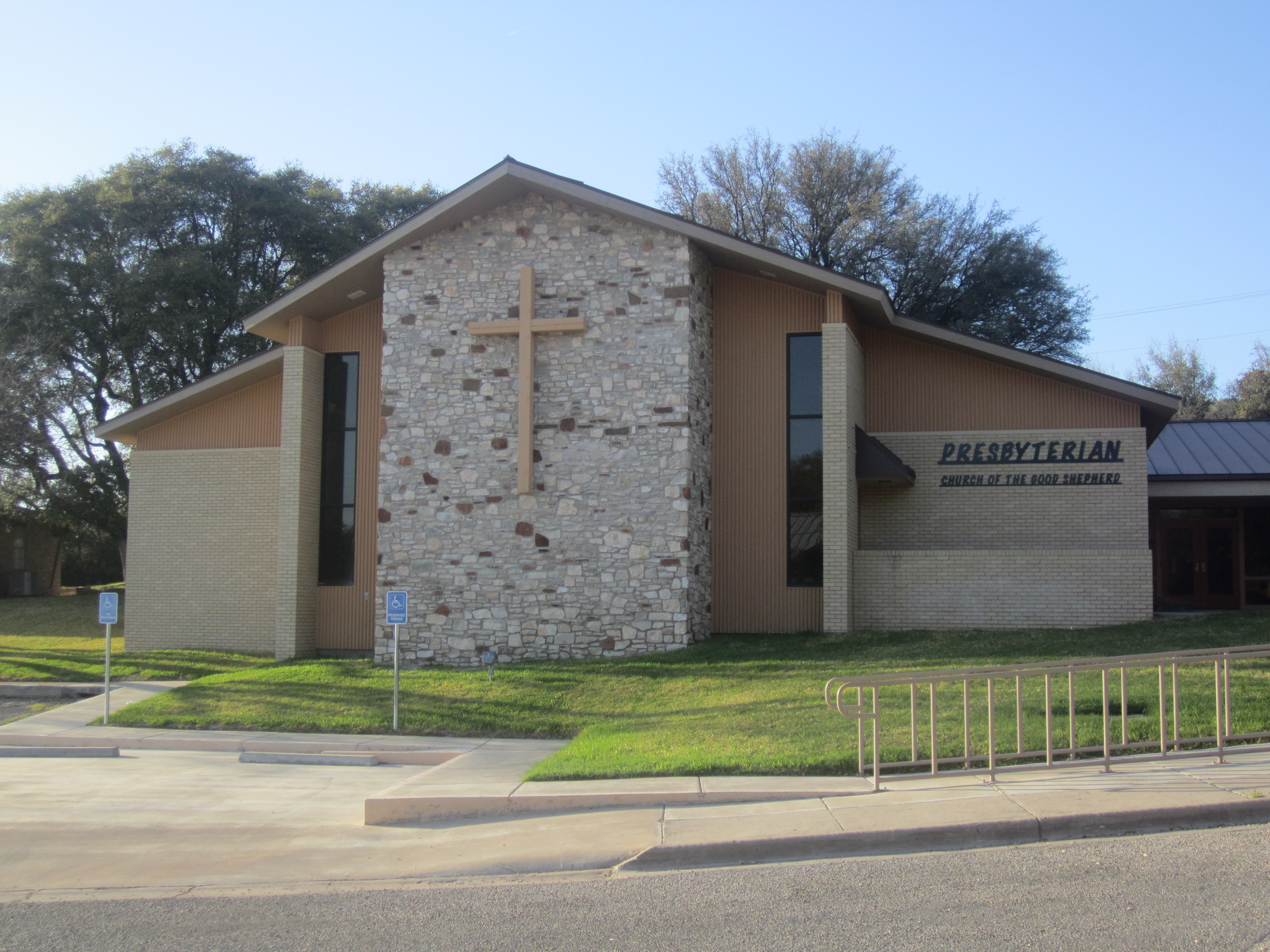 I took photo with Canon camera in Sonora, TX.